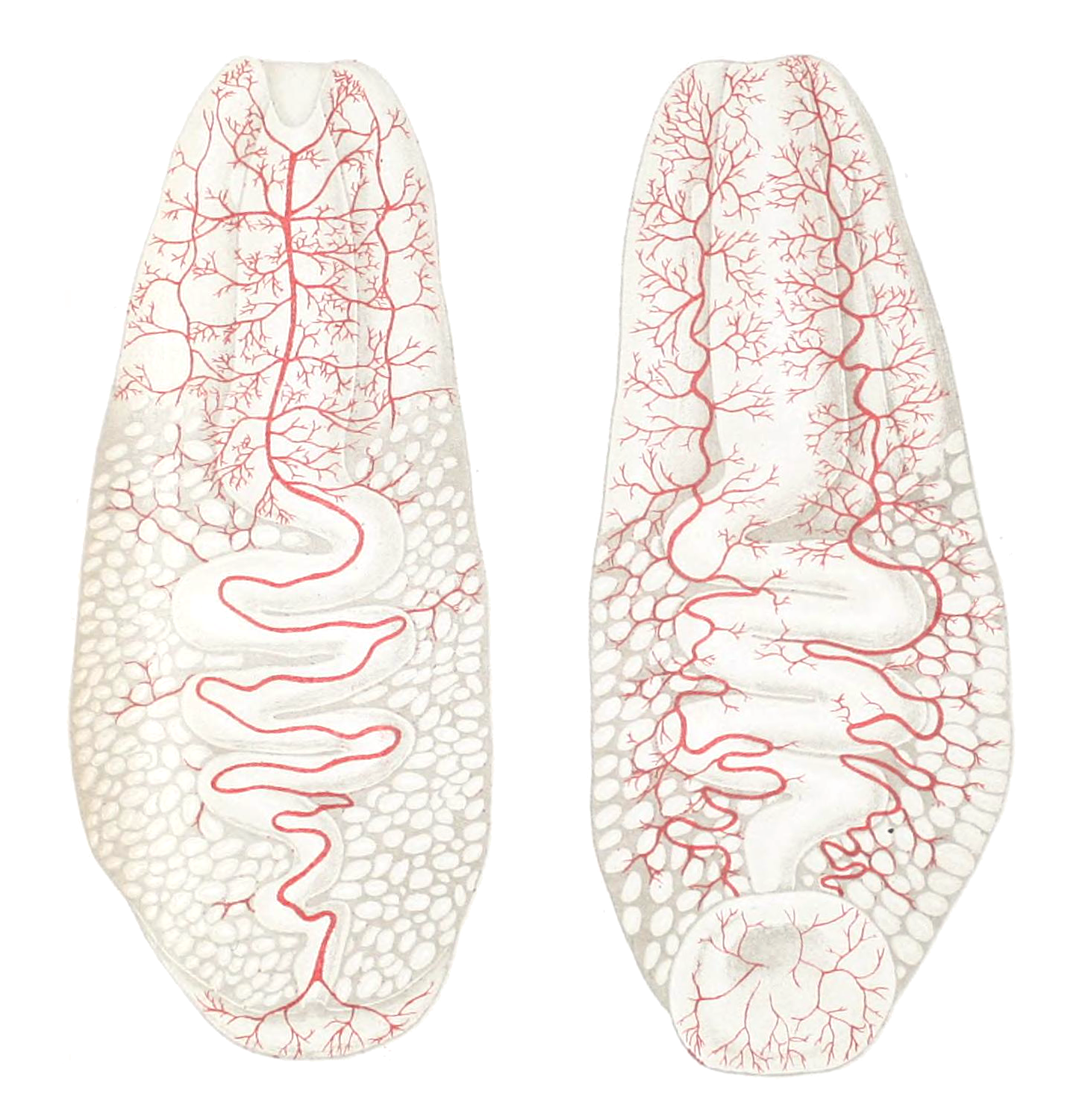 Vascular system of male nemertean Malacobdella (Nemertea: Enopla: Monostilifera). Left – dorsal view, right – ventral view.